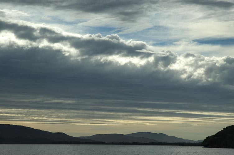 Paterson Inlet at sundown, Stewart Island/Rakiura, New Zealand.